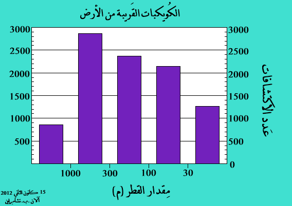 Near Earth Objects (NEO) by size category, represented by size bins of diameters: 1) Less than 30m 2) 30-100m 3) 100-300m 4) 300-1000m/1km 5) 1000m/1km or more